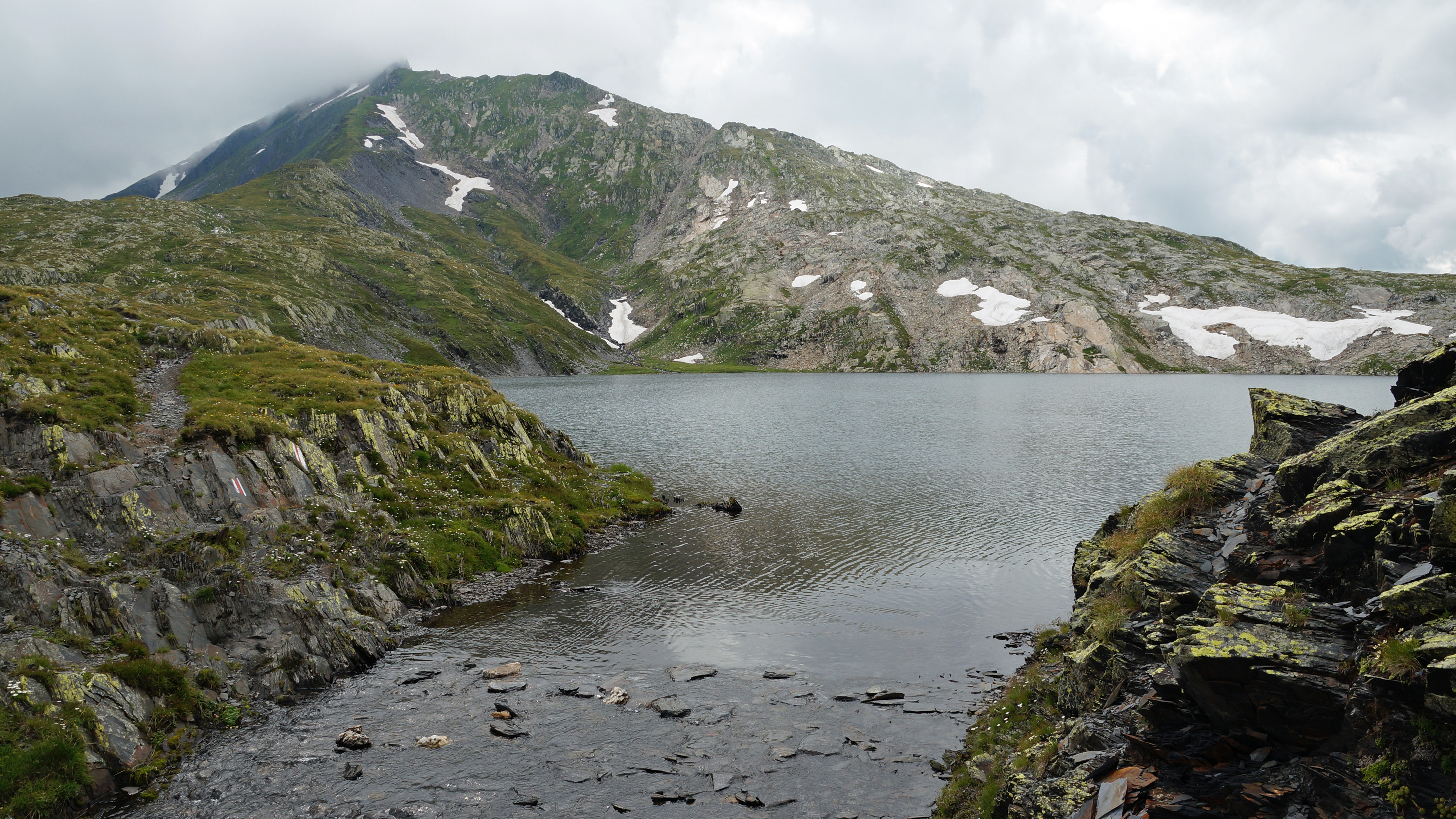 Lago Retico with Cima della Bianca in the clouds – Ticino, Switzerland